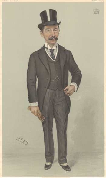 Caricature of Lord Northcote. Caption read "The Australian Commonwealth".